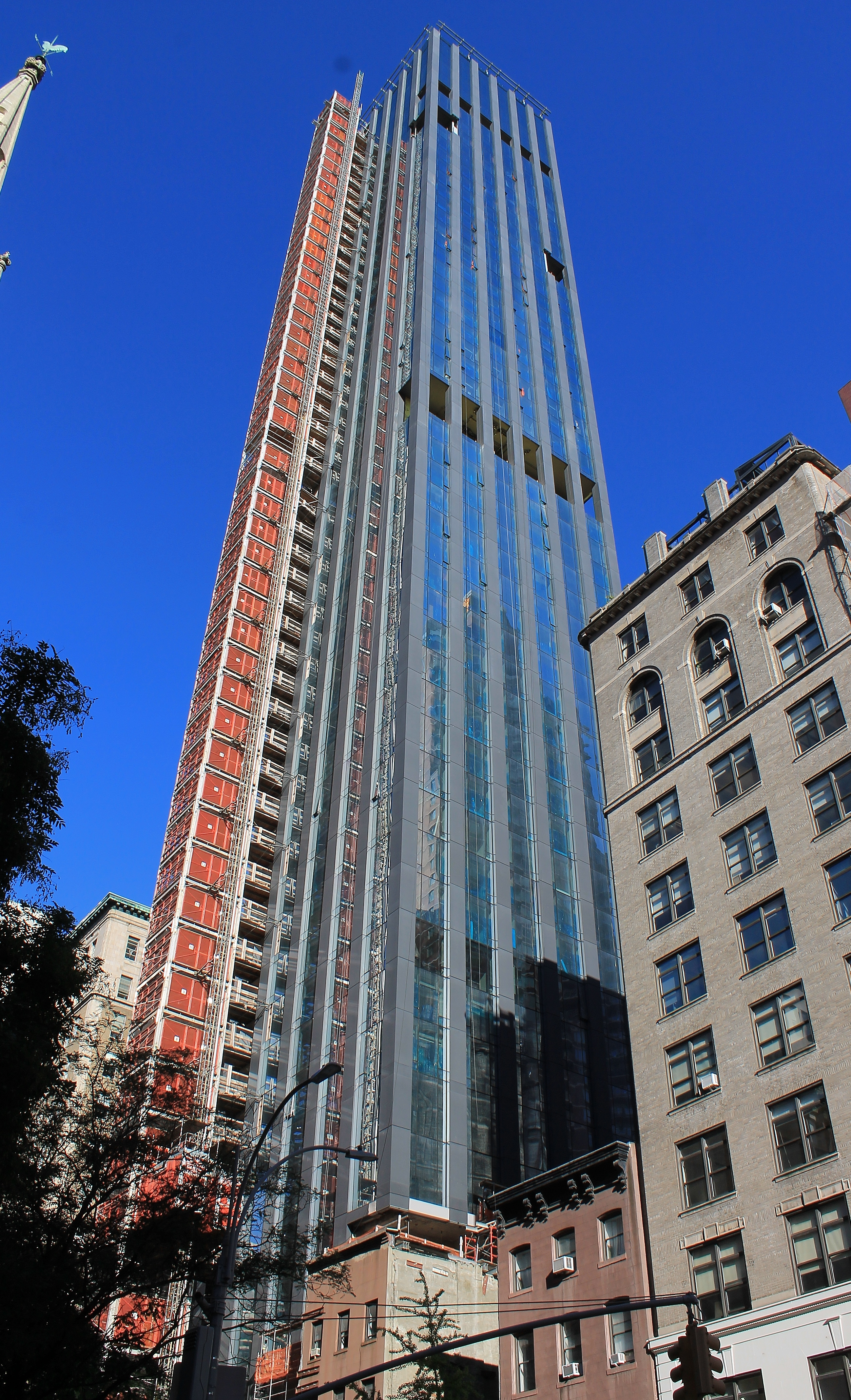 277 Fifth Avenue under construction, October 2018.